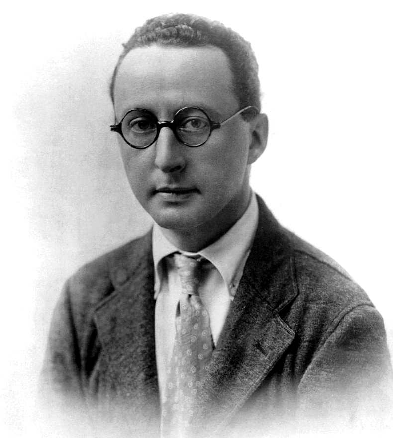 Photograph of Jerome Kern